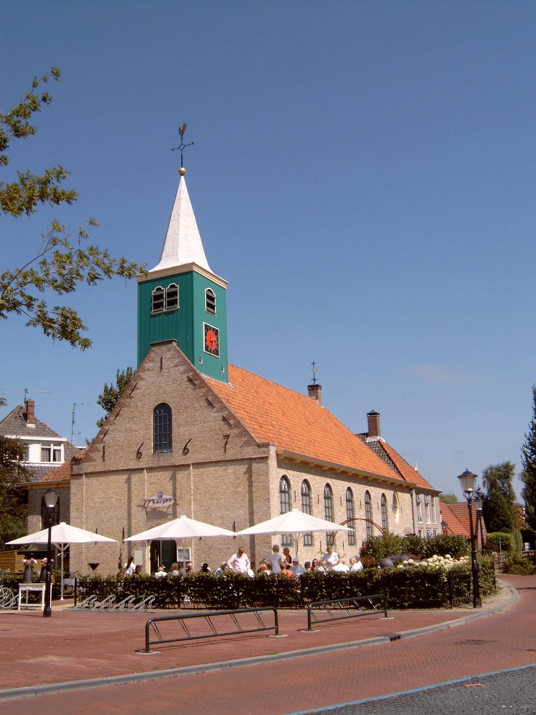 Andijk, church